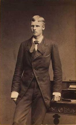 Ulrik Adolph Plesner (1862-1933), Danish architect